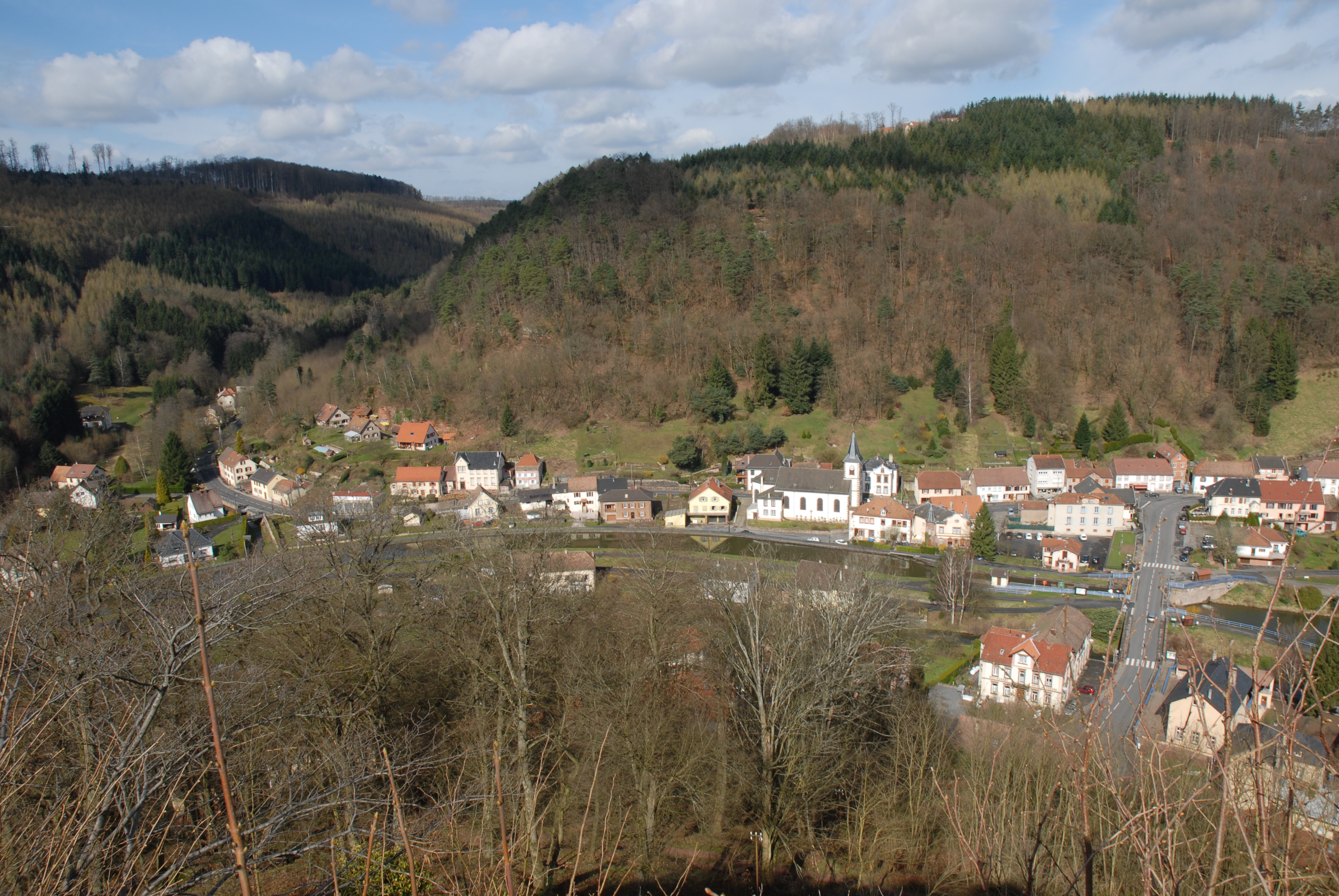 Lutzelbourg town seen from castle.